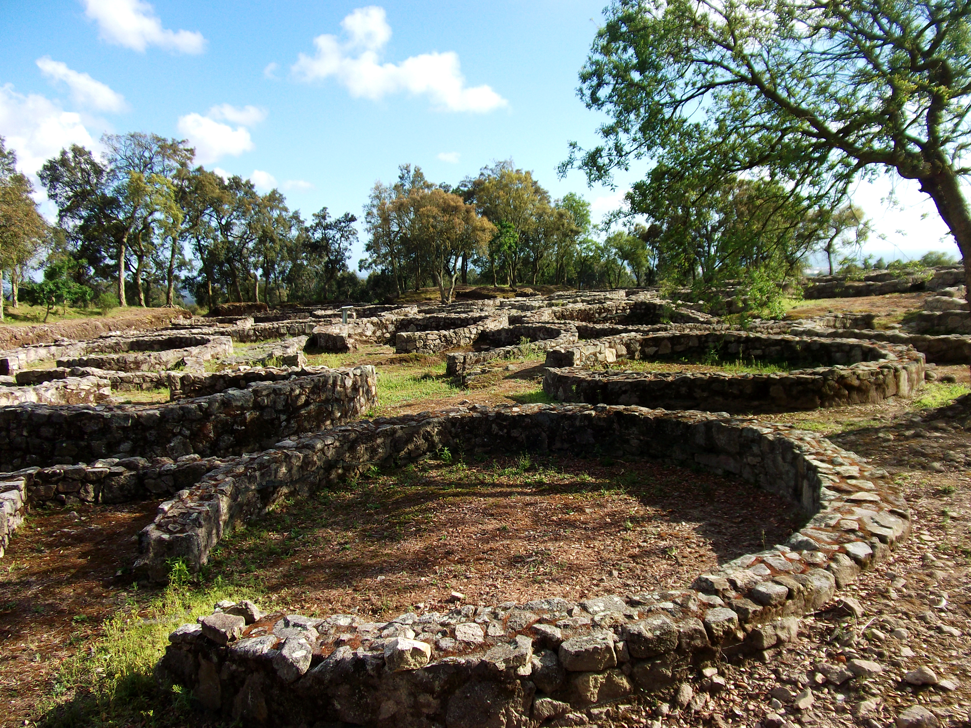 Cividade de Terroso, Povoa de Varzim, Portugal